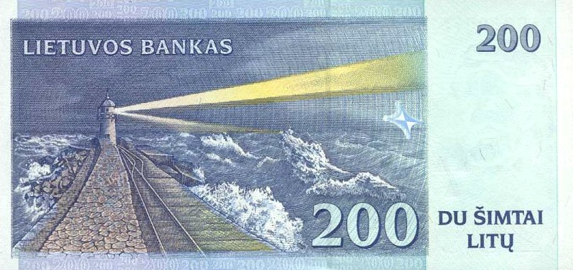 Lithuania 200 litu 1997